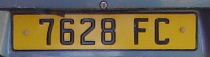 actual license plate (yellow version) from Madagascar, registered in the Fianarantsoa Province